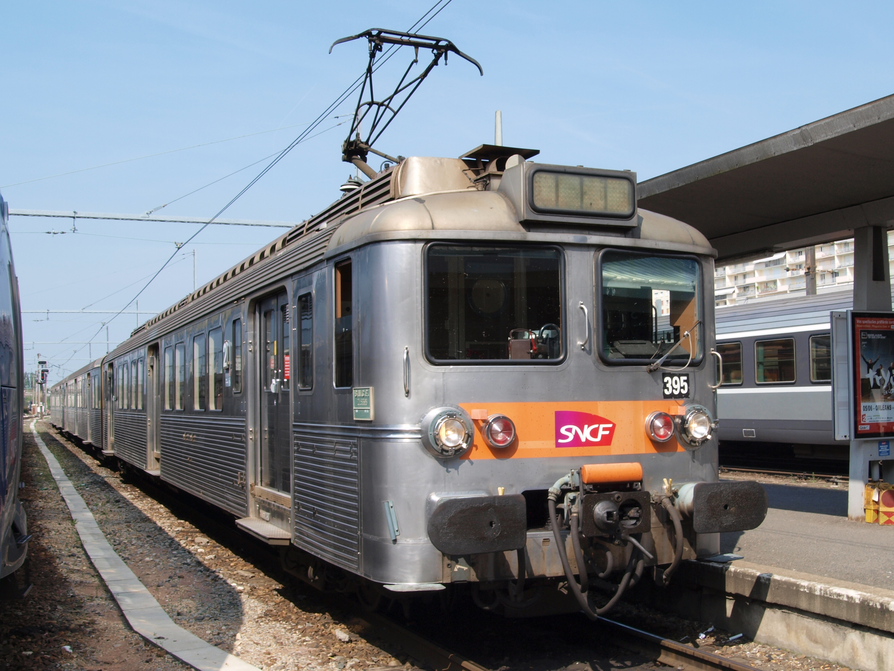 Photographed in Orleans, France.